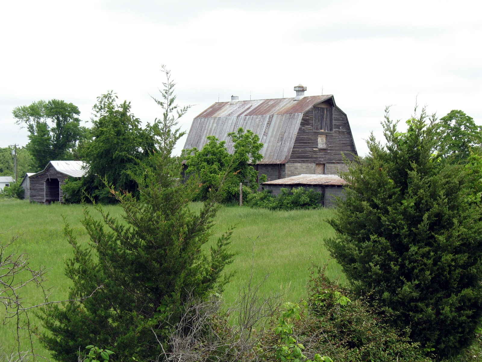 Indian Town, Locust Grove, Virginia